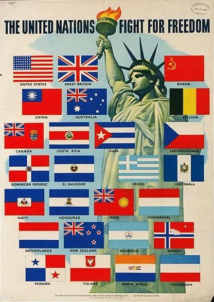 First UN poster, August 1942. Soviet flag captioned as "Russia". The flags of the wartime "big four" are come first, then the others are listed in alphabetical order.